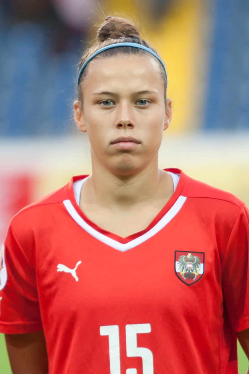 Women's Euro Qualification Austria vs. Wales, 2015-09-22, St. Pölten, Lower Austria